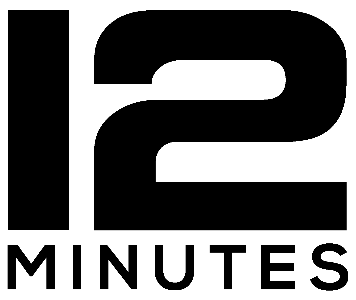 Logo for the video game 12 Minutes